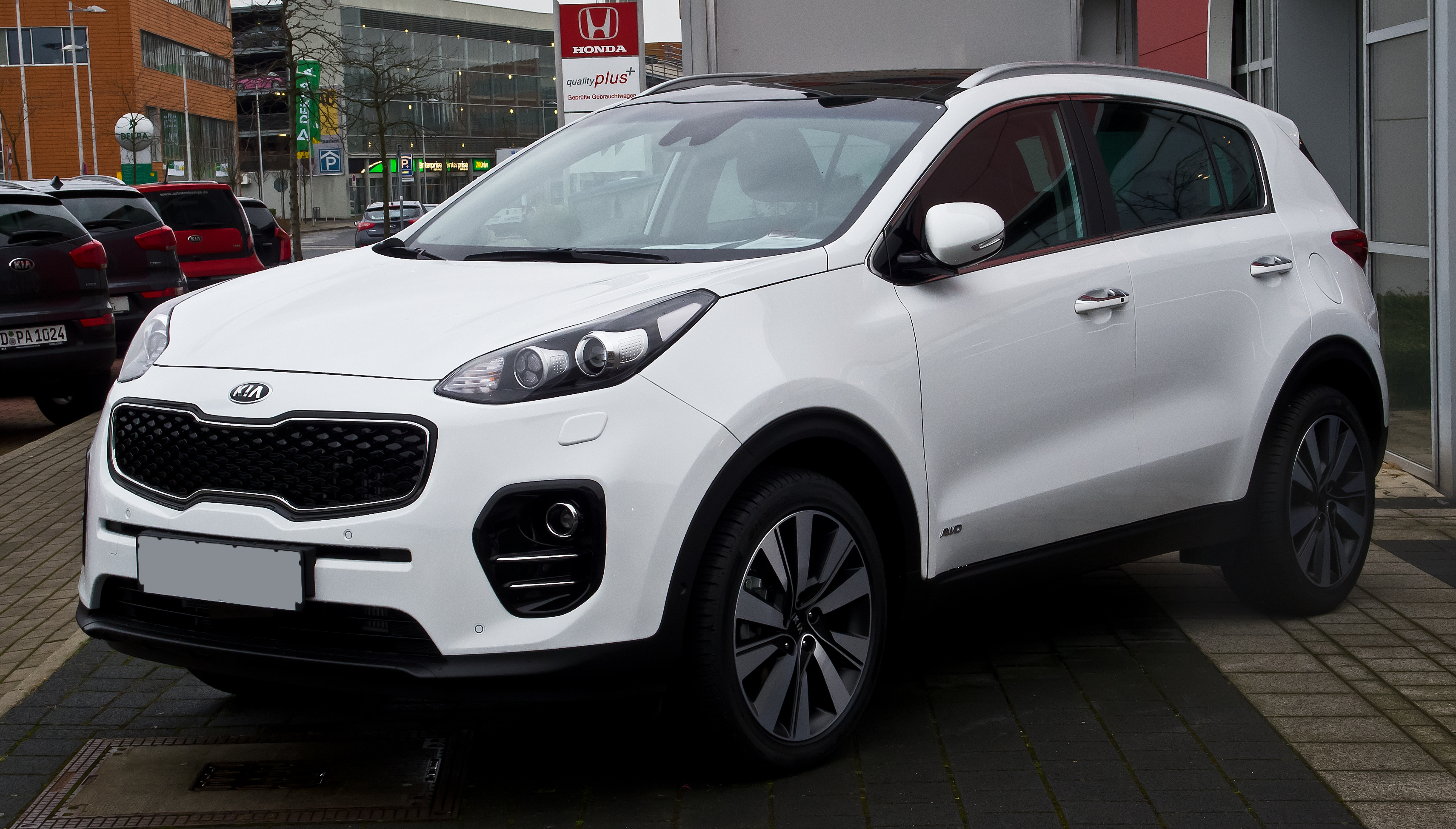 Kia Sportage 2.0 CRDi AWD Platinum Edition (IV)